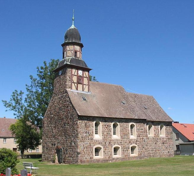 Stone church Raben, built in the first half of the13th century. The village Raben is a part of the municipality Rabenstein/Fläming in the district Potsdam Mittelmark, state Brandenburg, Germany. Raben appertains to the natural preserve Naturpark Hoher Fläming.